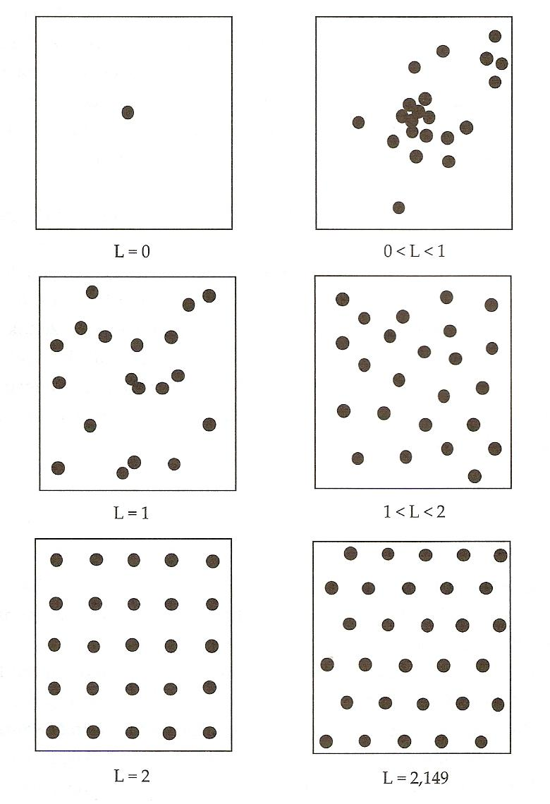 Results of the nearest neighbor analysis.